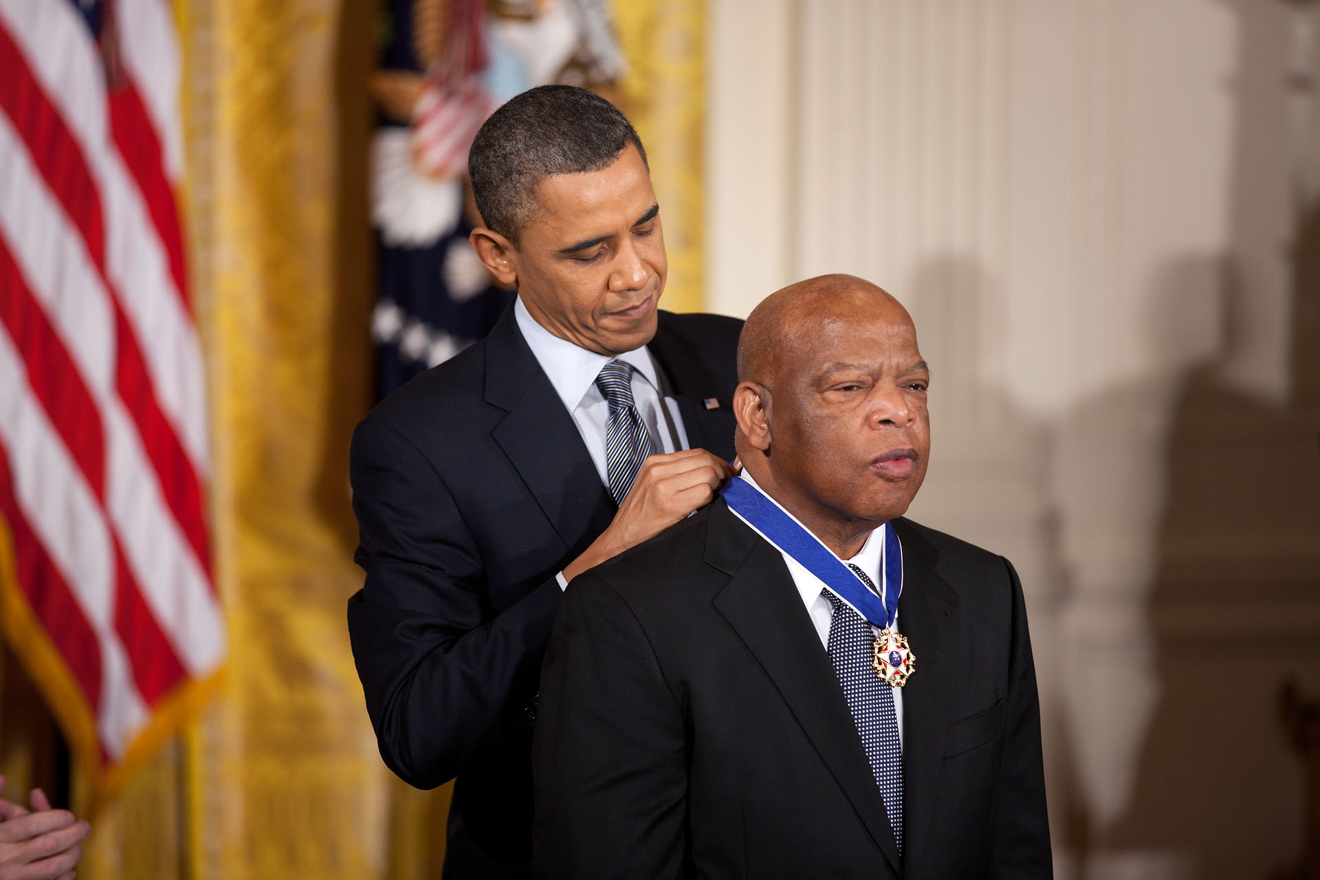 President Barack Obama awards the 2010 Presidential Medal of Freedom to Congressman John Lewis in a ceremony in the East Room of the White House February 15, 2011. (Official White House Photo by Lawrence Jackson)